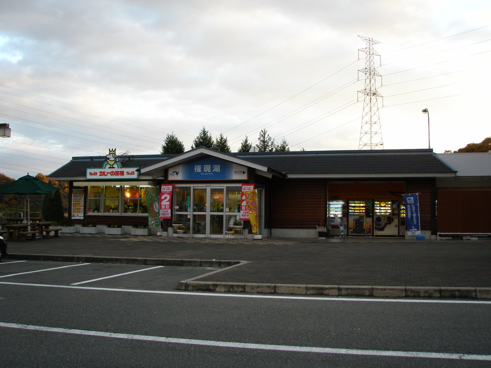 Sanyo Expressway Gongenko Parking Area downside（for Himeji 、Okayama）